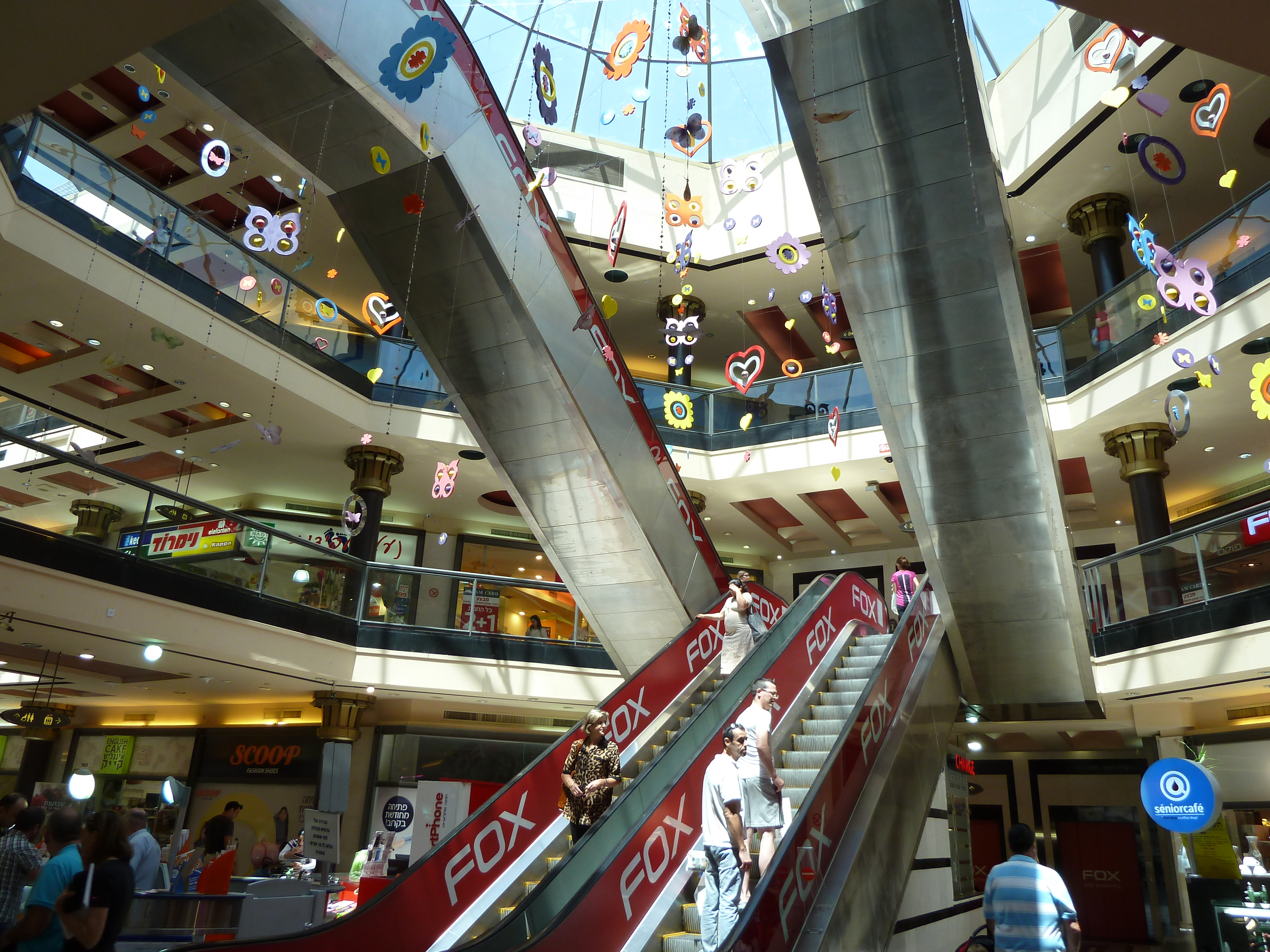 Jerusalem Pisgat Zeev Mall Escalators